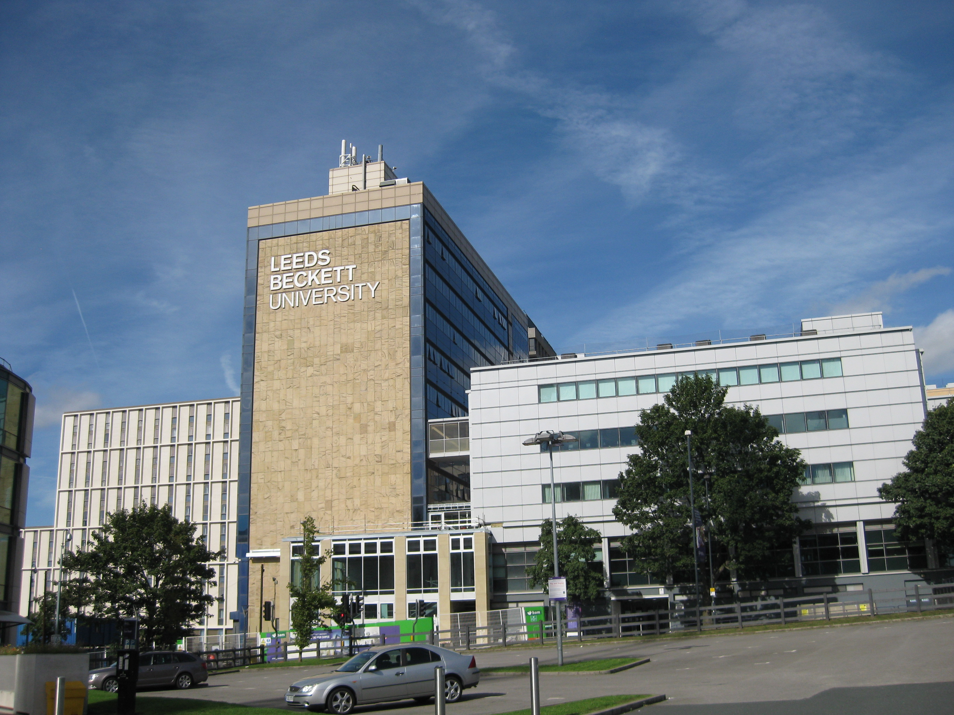 Leeds Beckett University, September 2016, after completion of building work to left. The name is on the Portland Building. The Woodhouse Building containing the Students' Union is to the right. Viewed from the Rose Bowl car park.